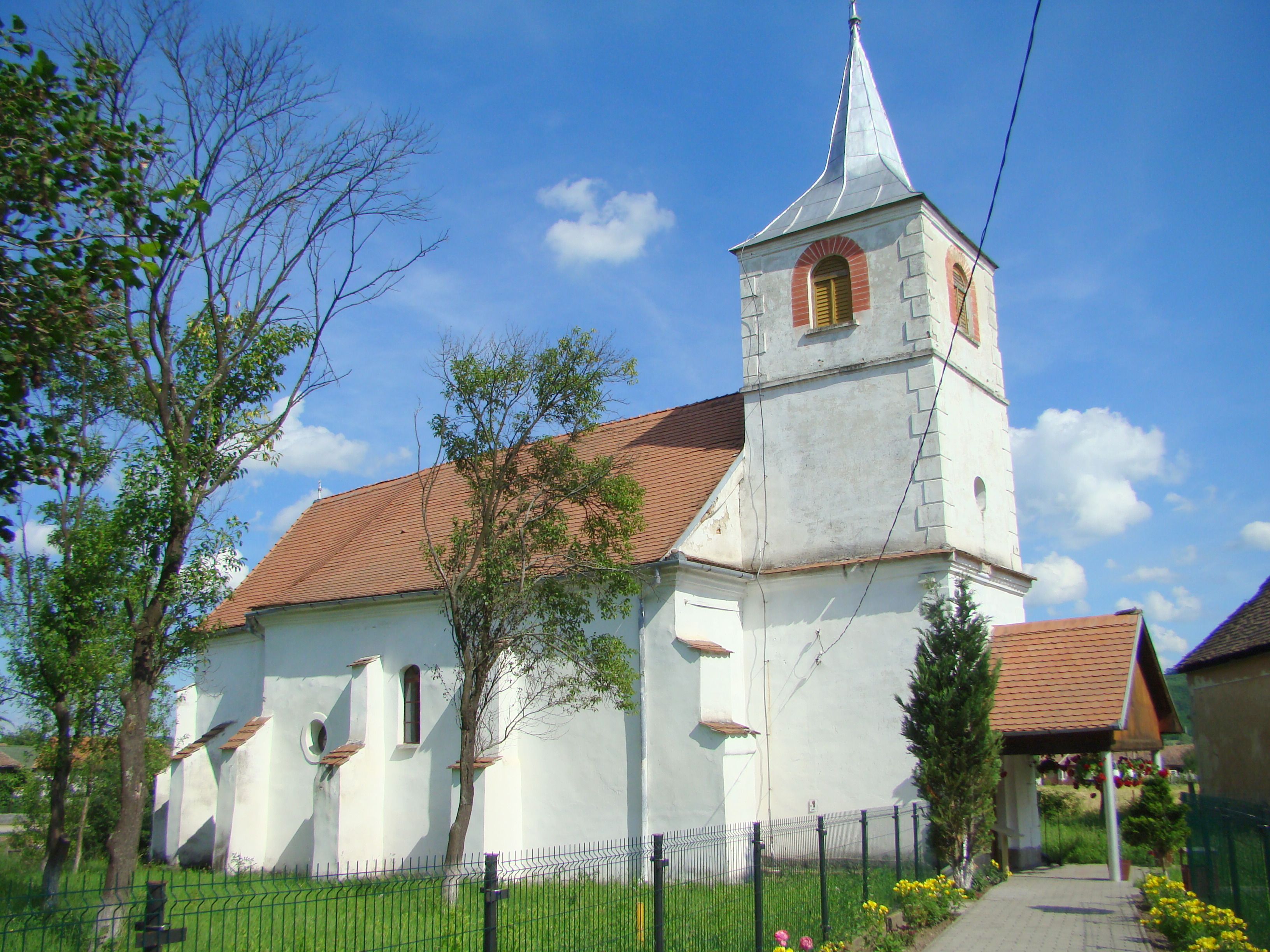 Reformed church in Alma, Sibiu county, Romania